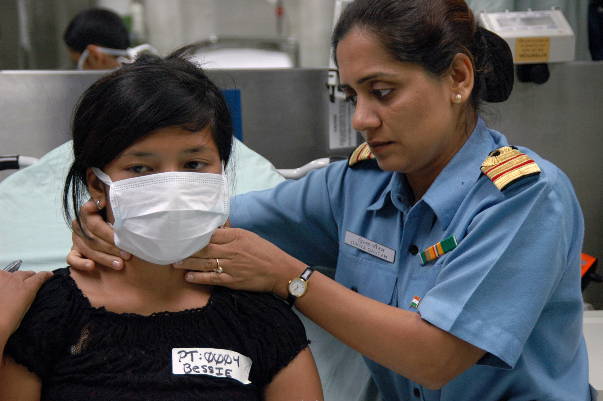 Kupang, Indonesia (Aug. 20, 2006) – Indian Navy Cmdr. Diviya Gautam examines a patient in casualty receiving aboard the Military Sealift Command (MSC) hospital ship USNS Mercy (T-AH 19). Mercy is off the coast to provide humanitarian and civic assistance to the people of this small island. Mercy is in the fourth month of her five-month humanitarian and civic assistance deployment to South and Southeast Asia where her crew has already treated thousands of people. U.S. Navy photo by Mass Communication Specialist Seaman Ryan Clement (RELEASED)